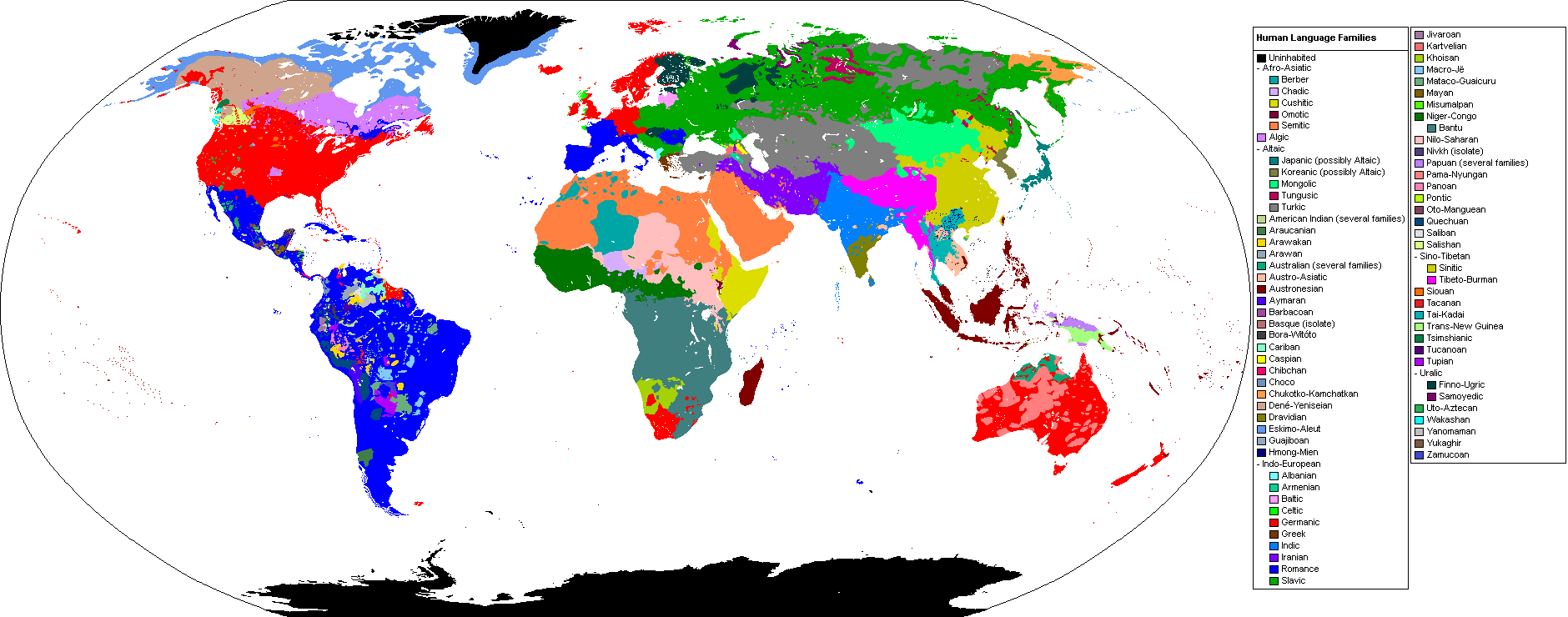 This map shows the world's language families. If you have any suggestions for the map, post them on my user page. Industrius.